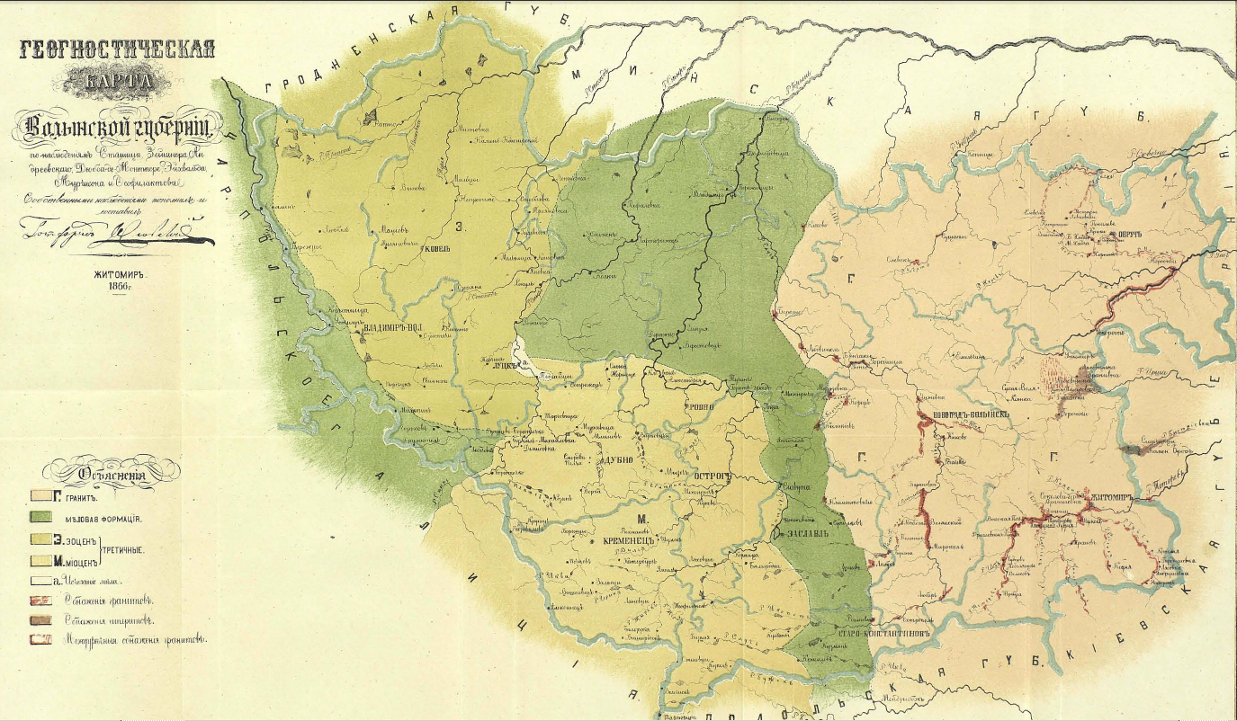 Geological map of the Volynsk province of 1866